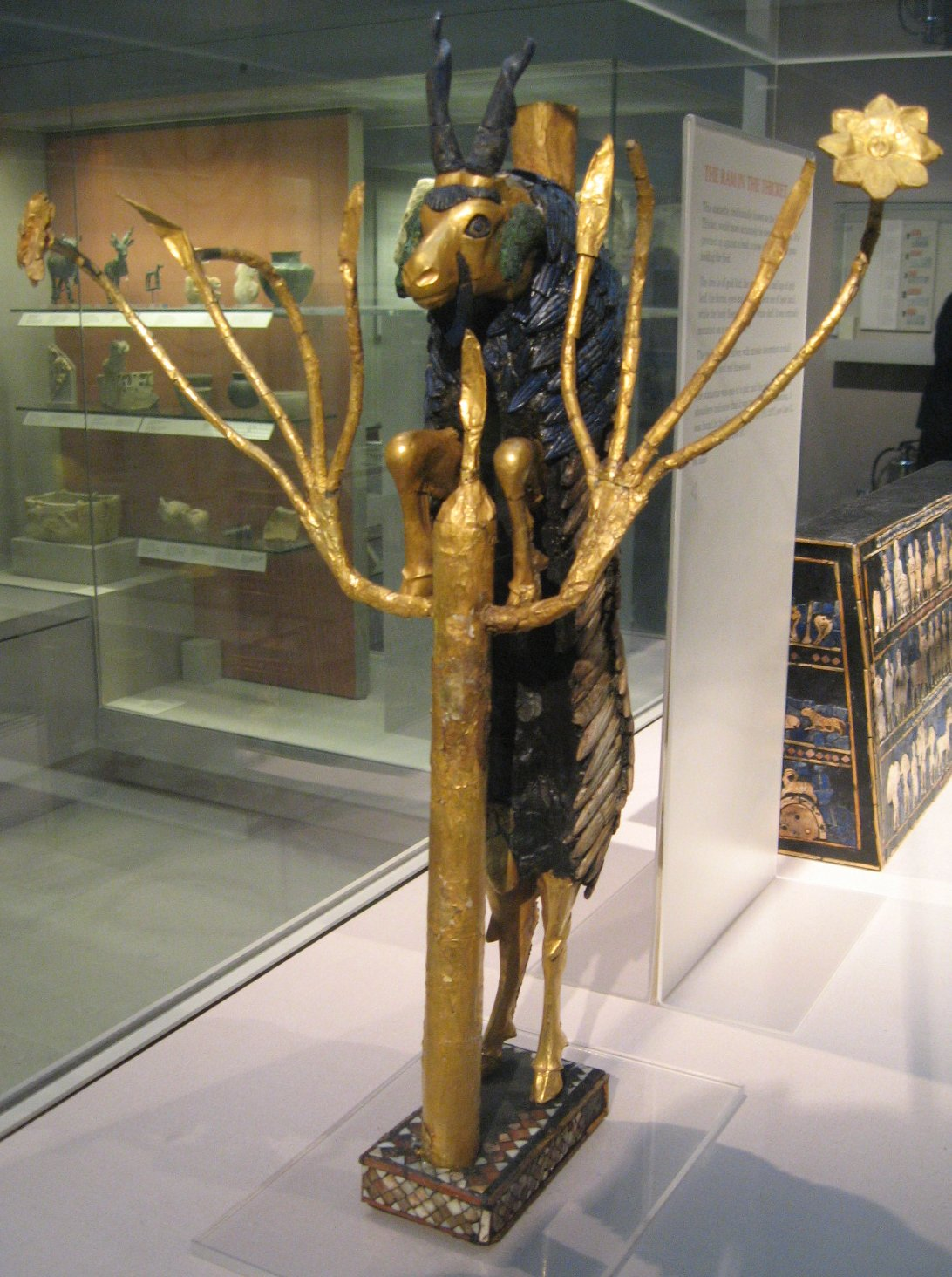 Photograph taken by me February 2 2008